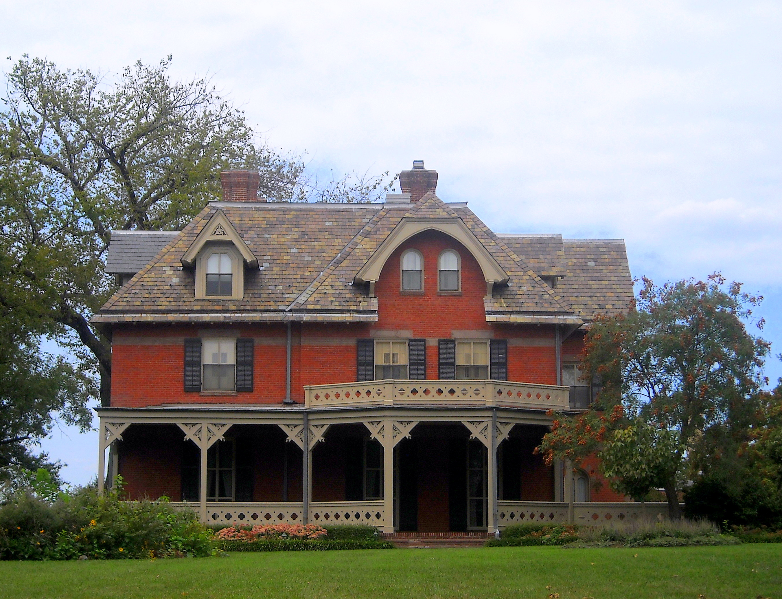 The President's House (also known as the Edward Miner Gallaudet Residence or House One) located on the campus of Gallaudet University in Washington, D.C. The 20-room Victorian Gothic mansion was designed by Vaux, Withers, & Co. in 1867. The original owner of the home was Edward Miner Gallaudet, founder and first president of the school. It's listed on the National Register of Historic Places and is a contributing property to the Gallaudet College Historic District, a National Historic Landmark.